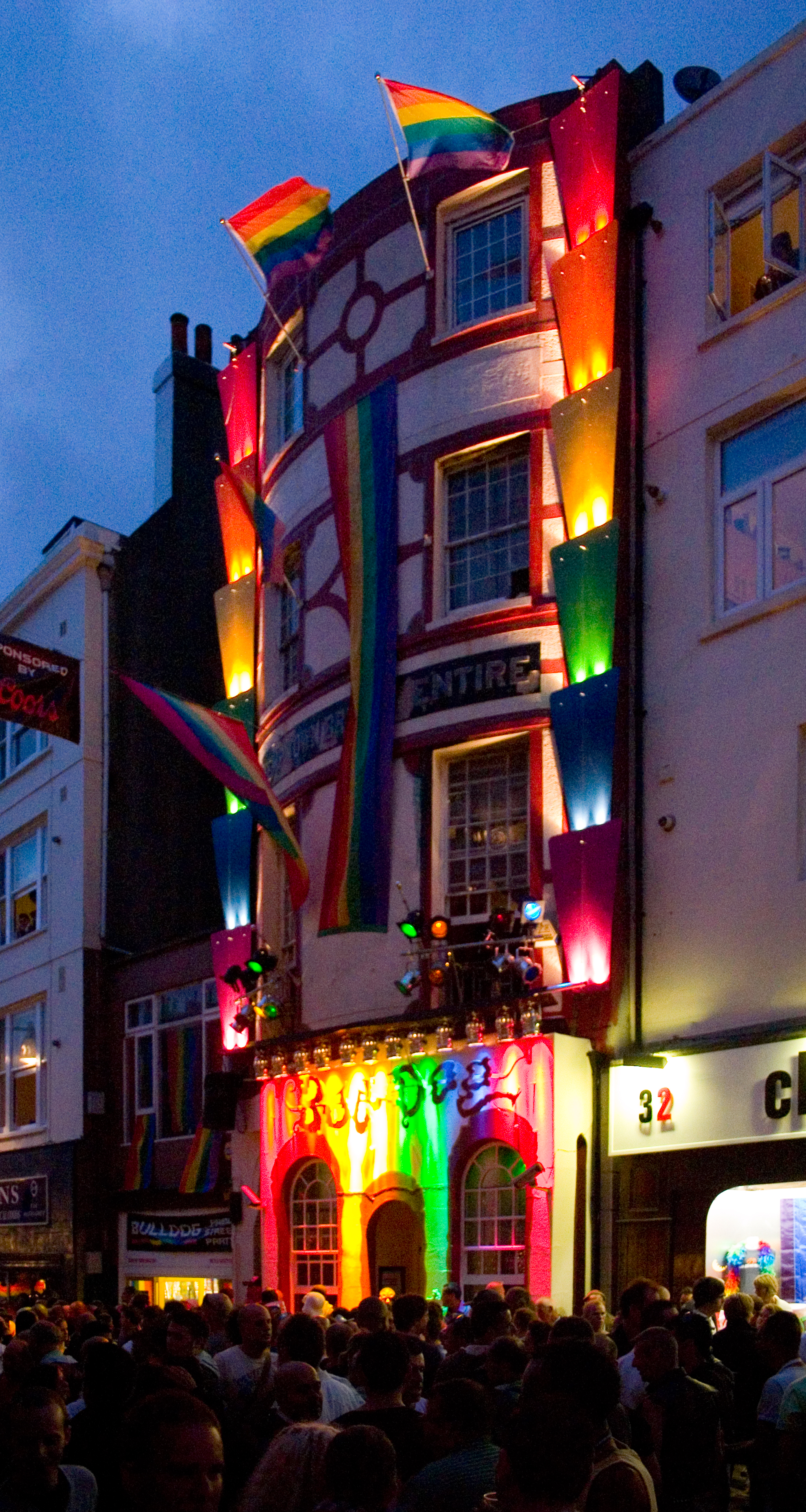 Street Party on St James's Street